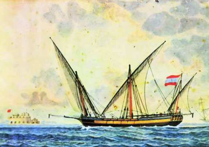 A Greek merchant ship flying the Graeco-Ottoman Banner.